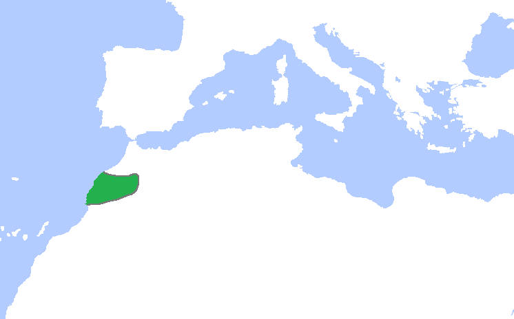 Map of Barghawata, c. 800-1000. (Partially based on Euratlas map, 800, 900 and 1000.)